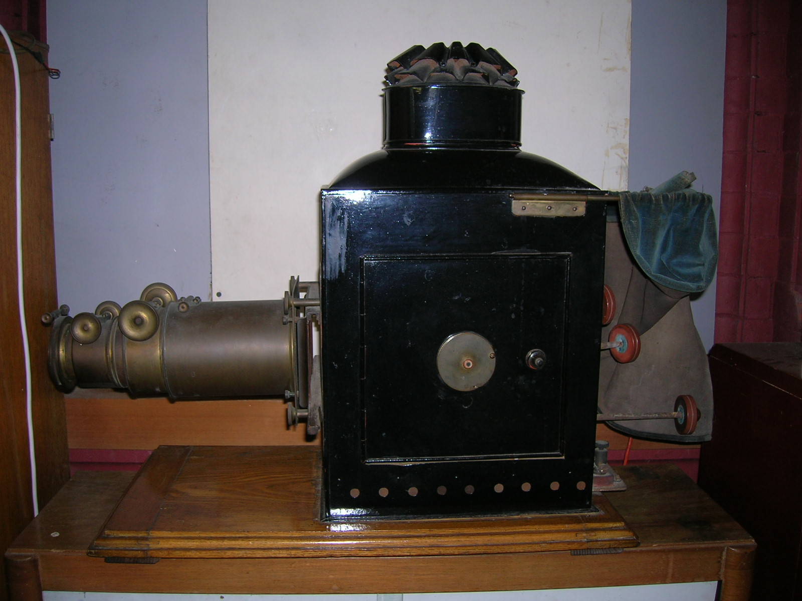 Episcope held at the Cambridge Museum of Technology. This was used originally in a University of Cambridge lecture hall in the late 1800s.